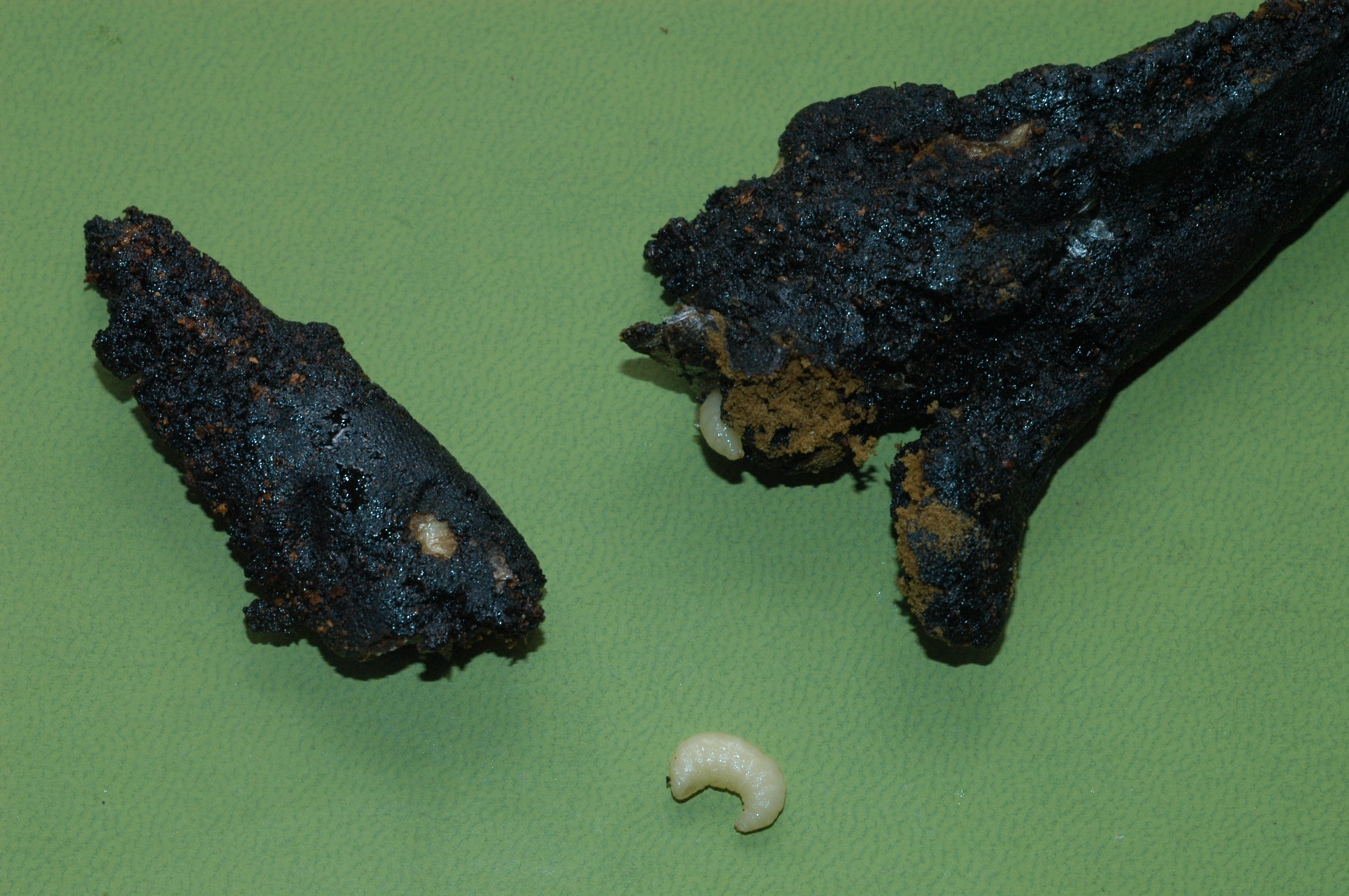 Fire-tailed resin bee nest of resin with bee larvae found in the fold of by my drizabone coat hanging outside my house